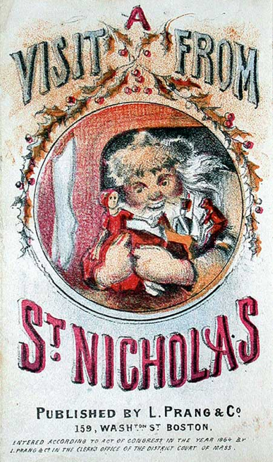 Visit from St. Nicholas. Illus. by Louis Prang